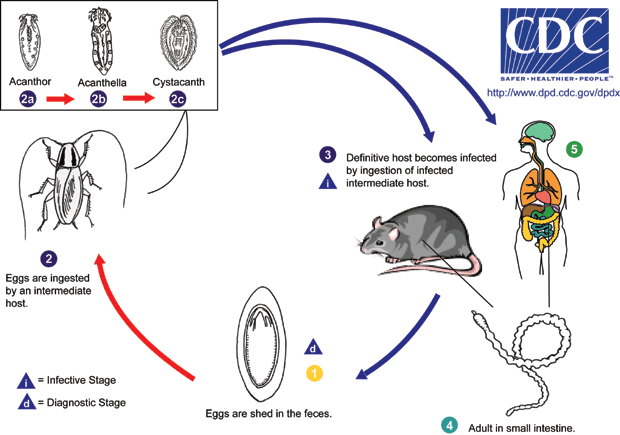 Life cycle of Moniliformis moniliformis (Acanthocephala: Archiacanthocephala: Moniliformida).